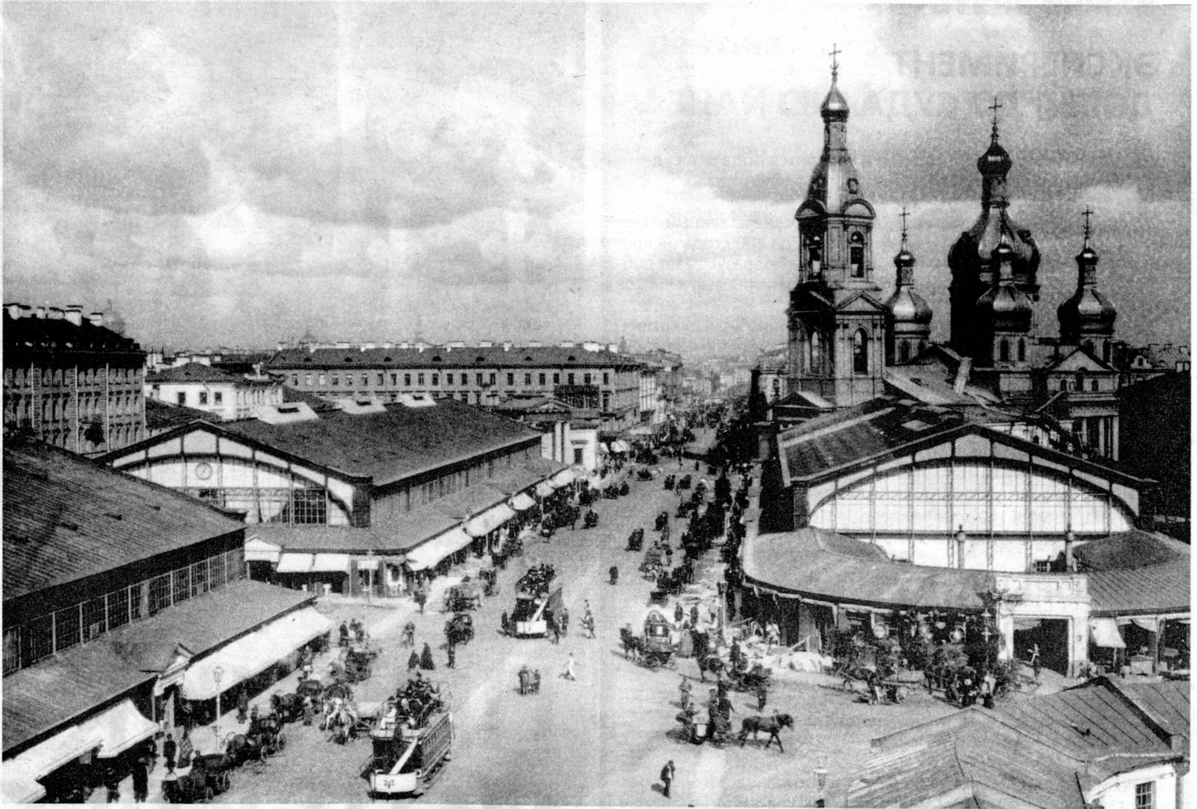 Sennaya Square in Saint Petersburg as photographed in 1900.